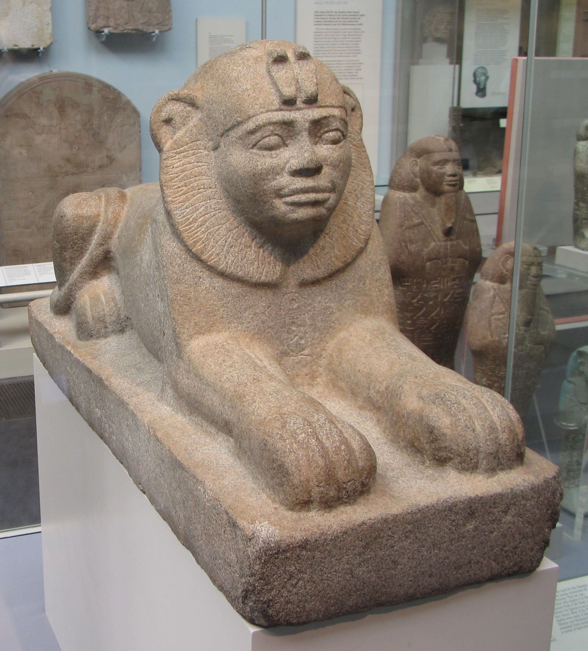 Sphinx of Taharqo, from Temple T at Kawa, Sudan, Kushite, about 680 BC. British Museum (EA 1770).